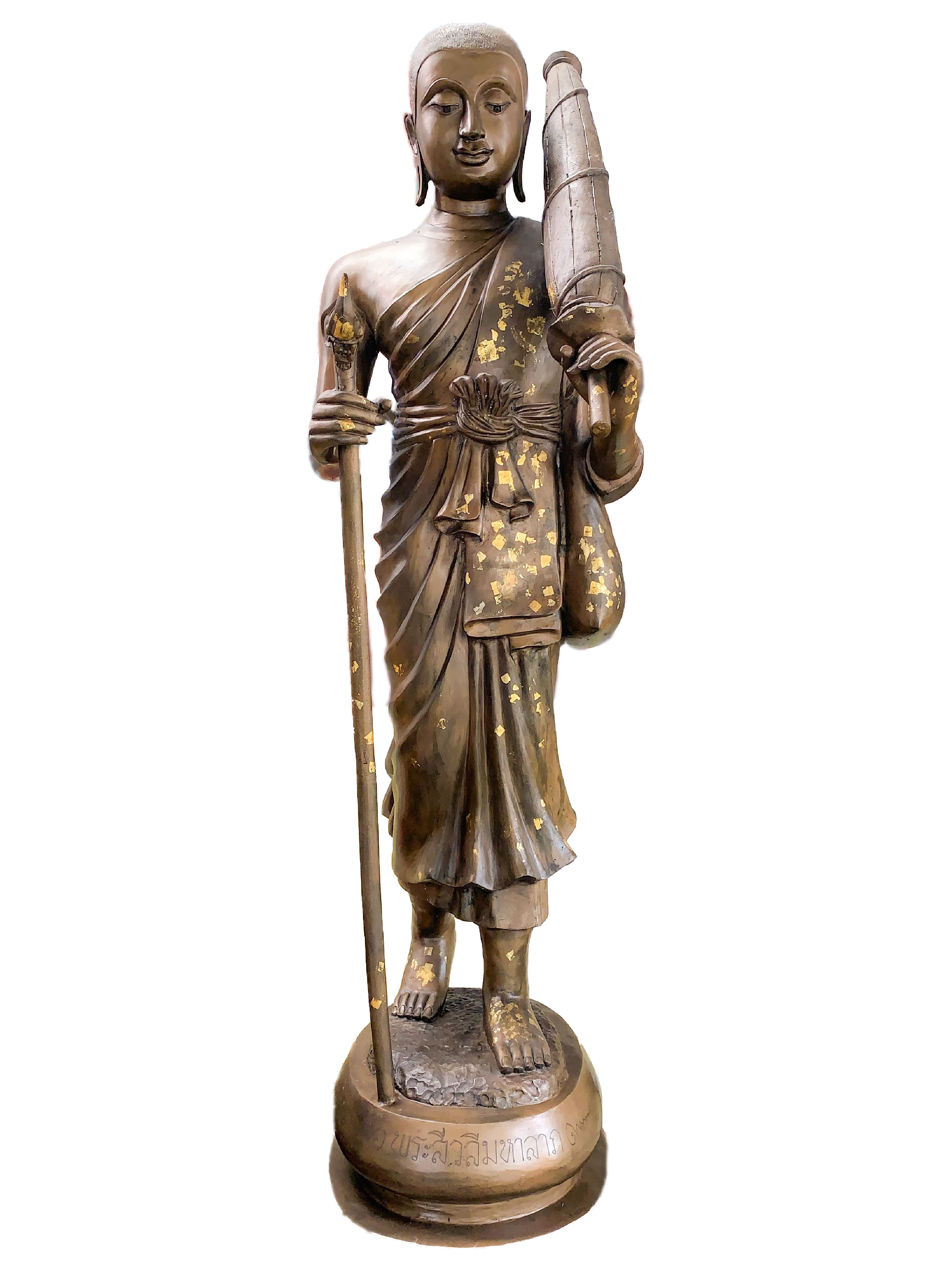 Sīvalī Thera